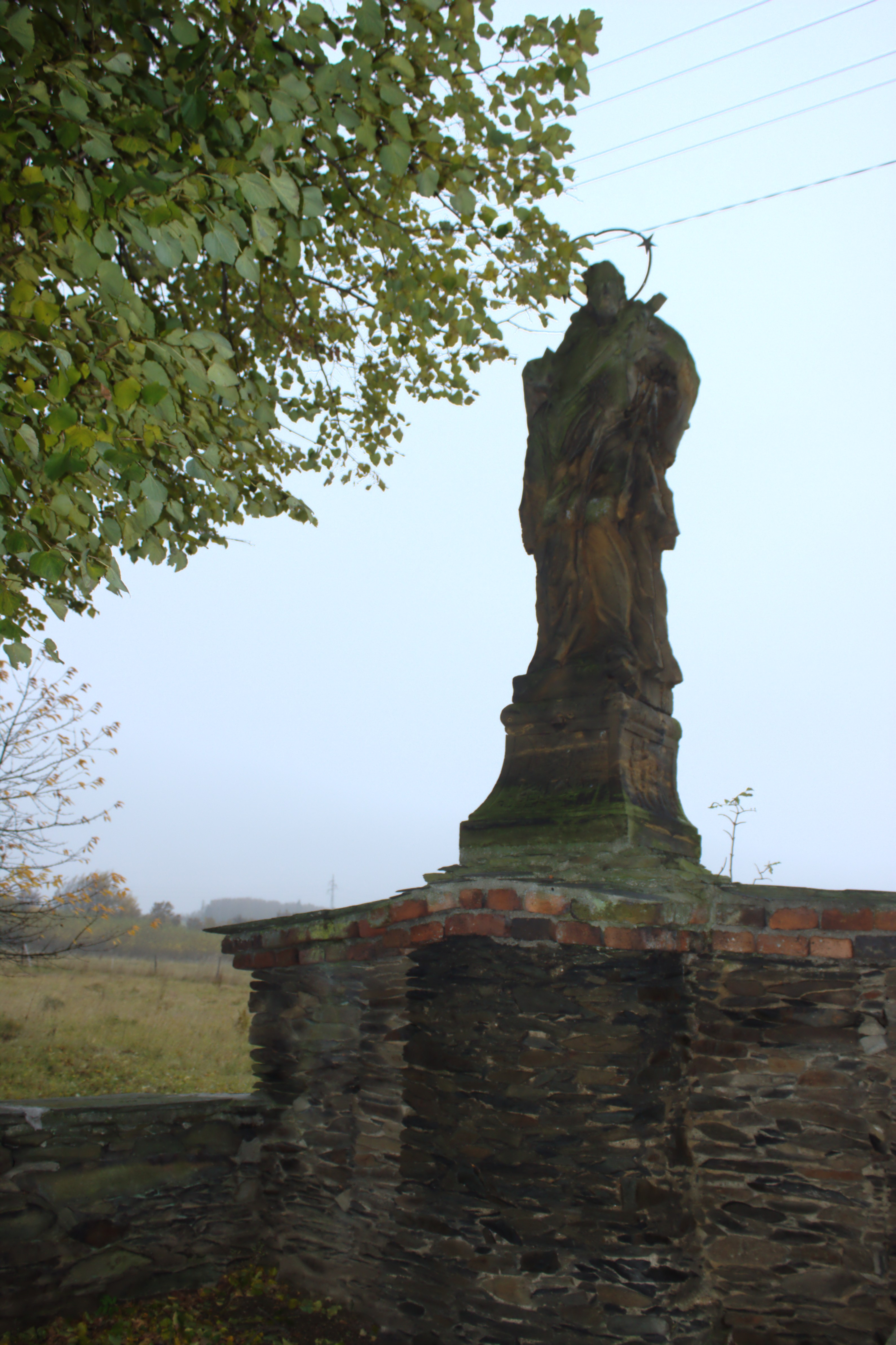 A statue at the southern edge of Milotice nad Opavou, Moravian-Silesian Region, CZ